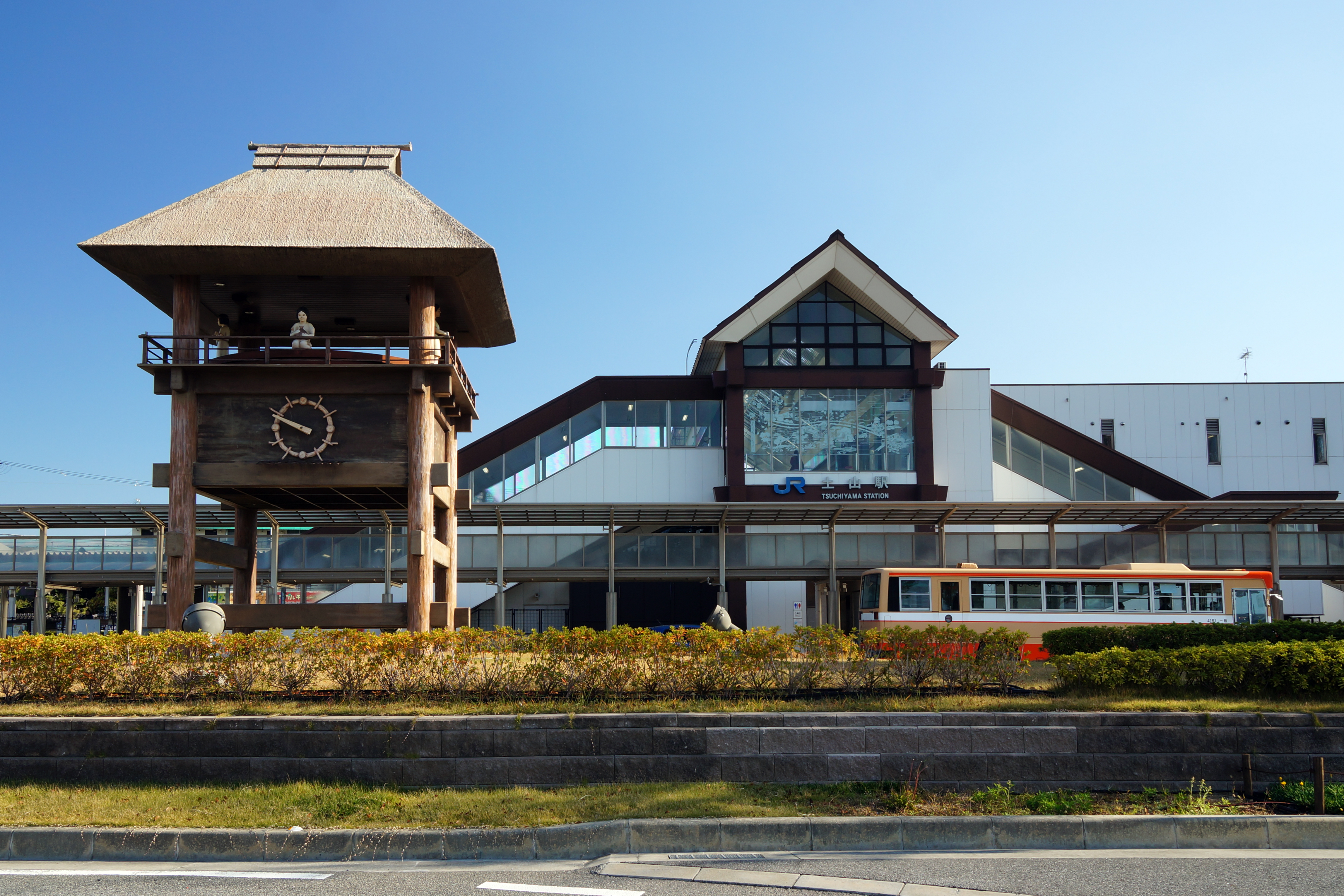 Tsuchiyama Station in Harima, Hyogo prefecture, Japan.